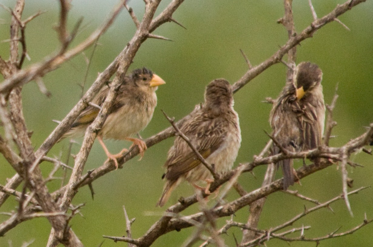 Red-billed Queleas (Quelea quelea) Dysmorodrepanis 20:22, 28 May 2008 (UTC)